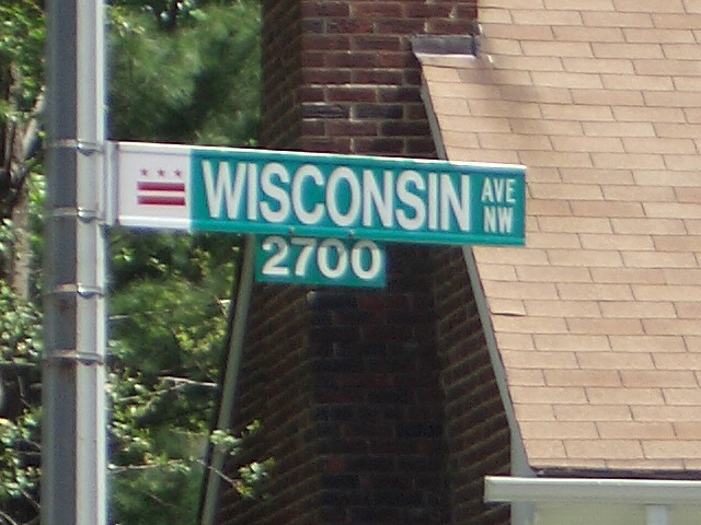 Wisconsin Avenue NW streetsign, Attribution-Sharealike 2.5